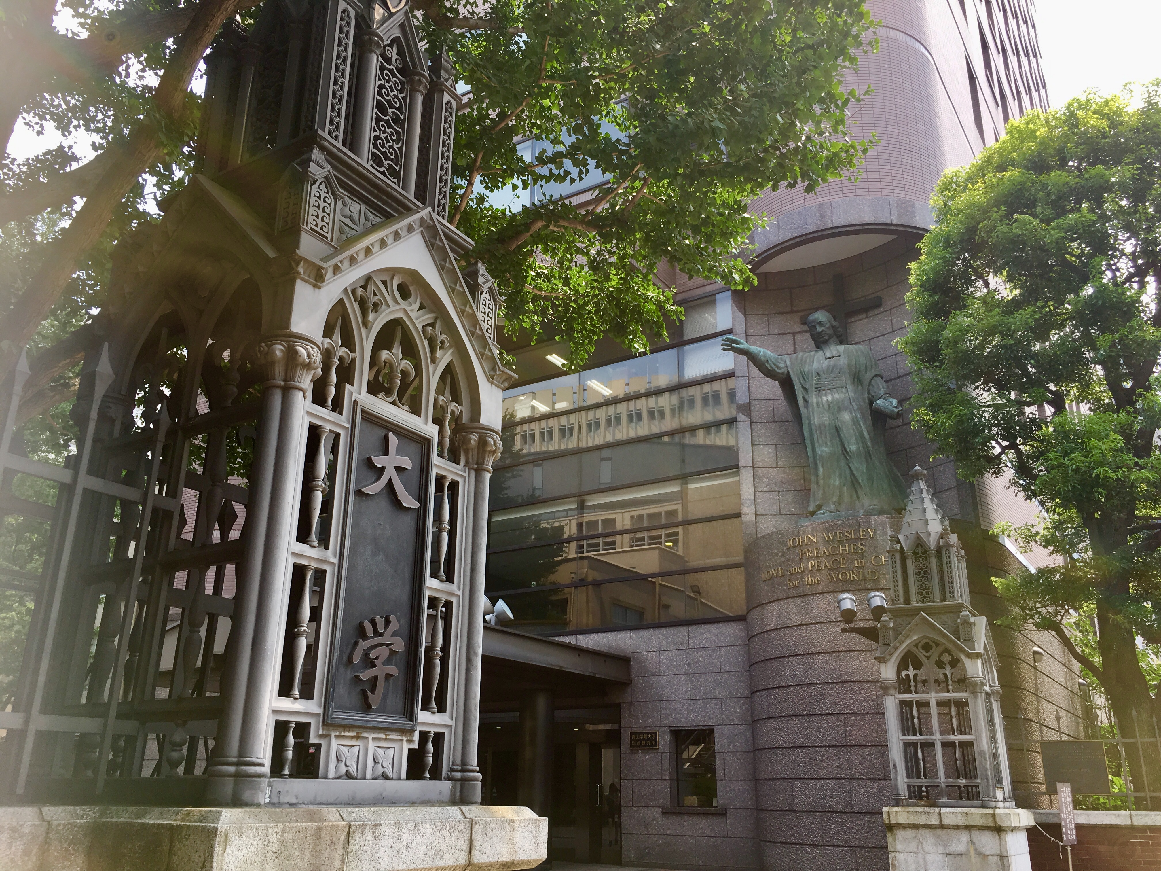 This is the school gate of Aoyama Gakuin university.